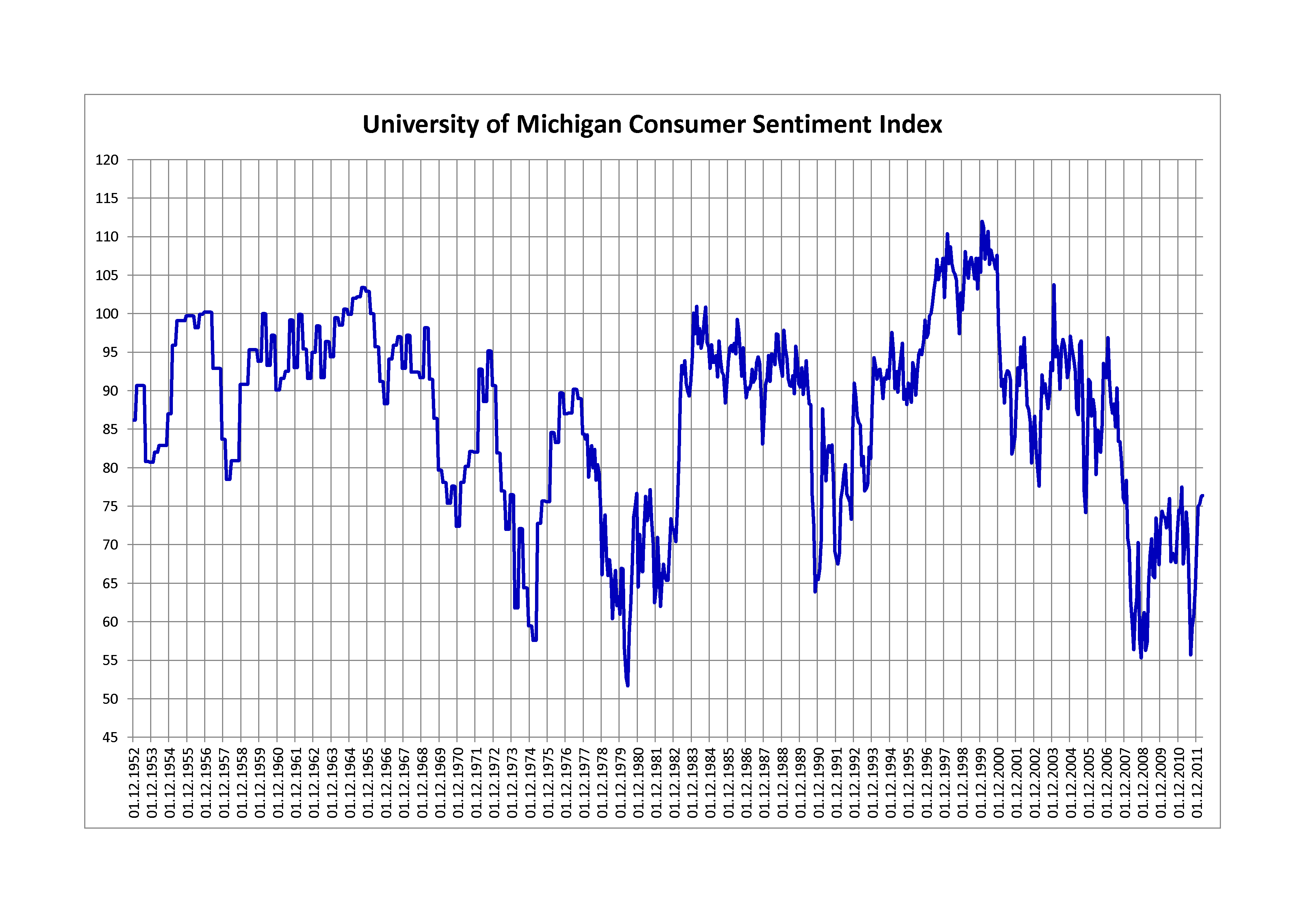 University of Michigan Consumer Sentiment Index from December 1952 to April 2012 (monthly data).